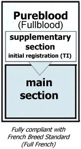 Schematic of French Limousin Herd Book, pre July 2007